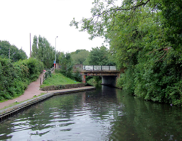 Yardley Wood Road Bridge near Warstock, Birmingham This is Bridge No 5 on the Stratford-upon-Avon Canal. The road between the Springfield and Warstock areas of Birmingham crosses the bridge.